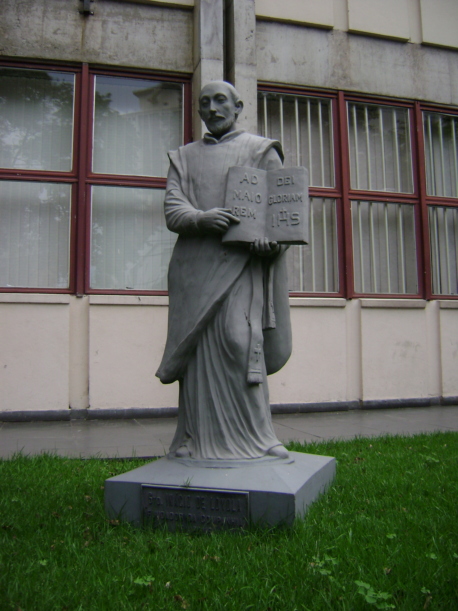 Statue of St. Ignatius of Loyola, the entrance of an educational institution of the same name, in Belo Horizonte.